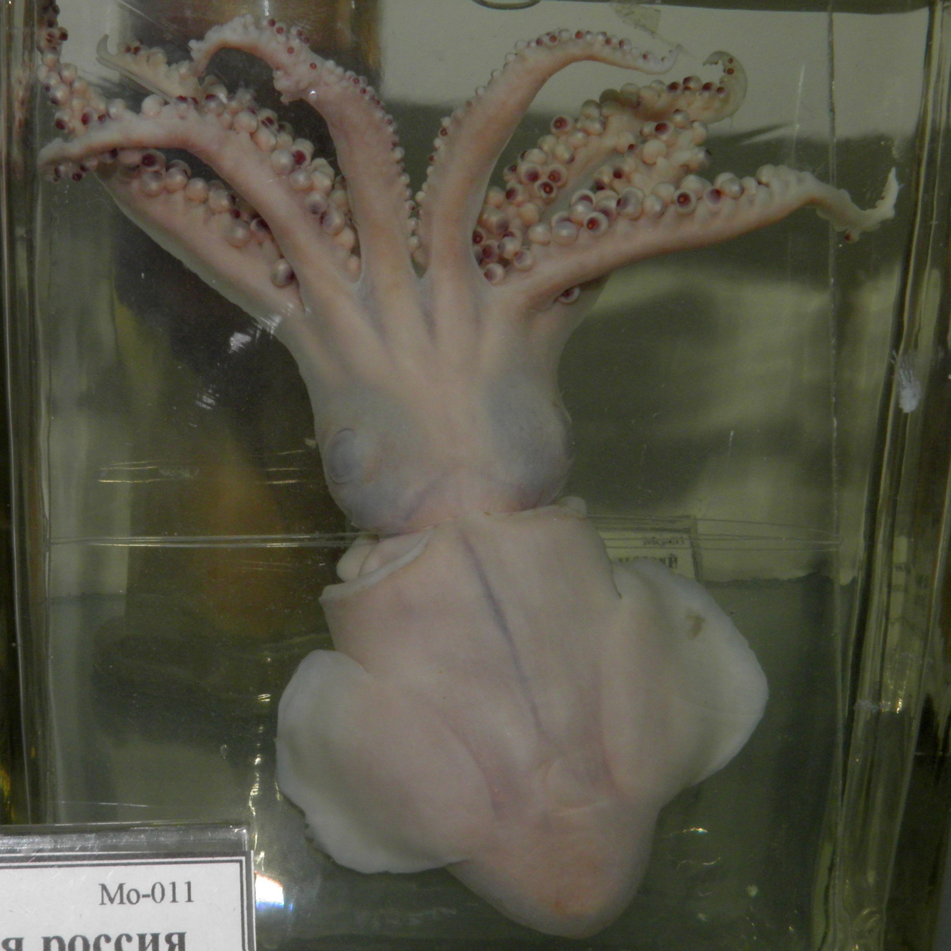 Rossia pacifica